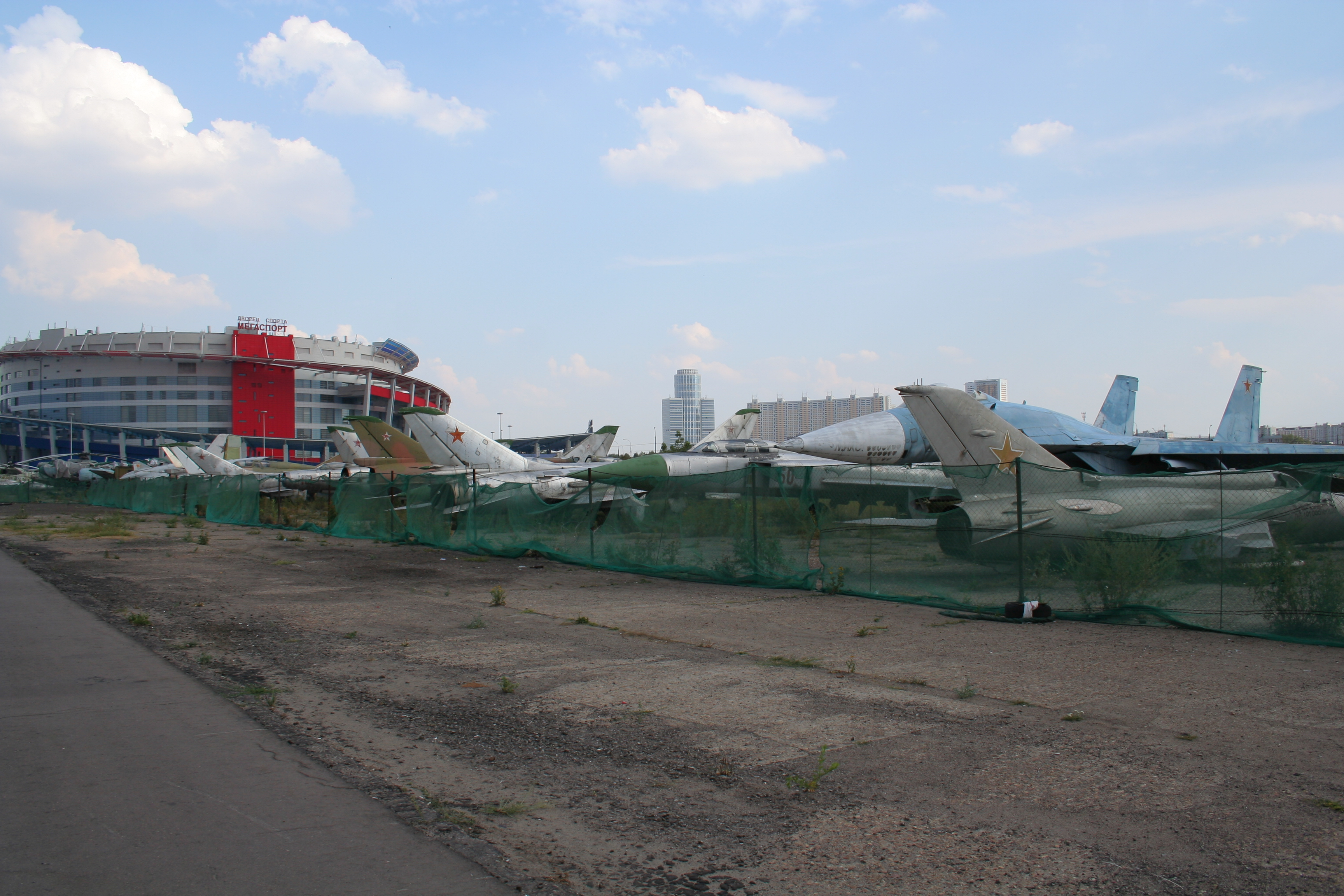 The Khodynka Field in Moscow. Views of the field in 2010.